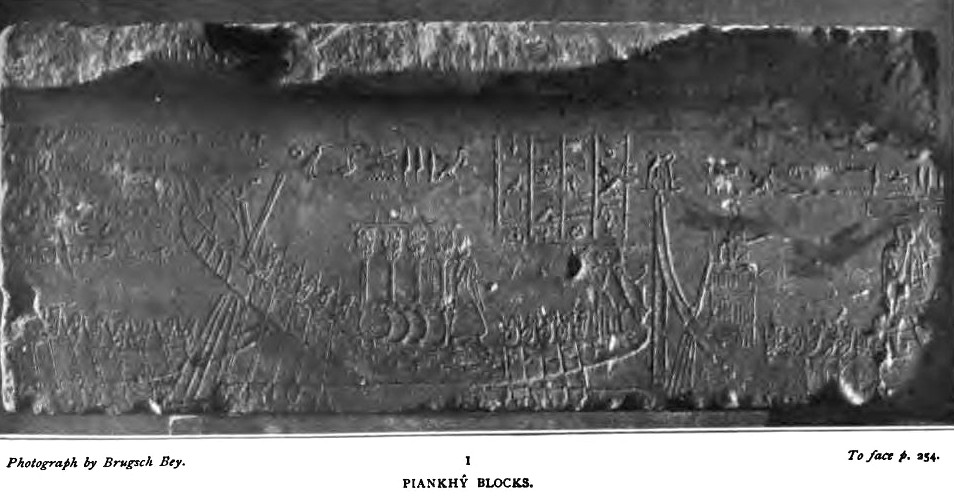 The block 1 of the so-called "Piankhy blocks", from the temple of Mut at Karnak. Actually, those blocks are unrelated to both Piankhy (Piye) and the 25th Dynasty in general, and were issued in regnal year 9 of king Psamtik I of the 26th Dynasty (656 BCE) to commemorate the arrival to Thebes of her daughter Nitocris I in order of being adopted as the future god's wife of Amun at Karnak. This particular block shows one of the vessels of the royal flotilla, the one led by the commander and prince of Herakleopolis, Sematawytefnakht.[1]